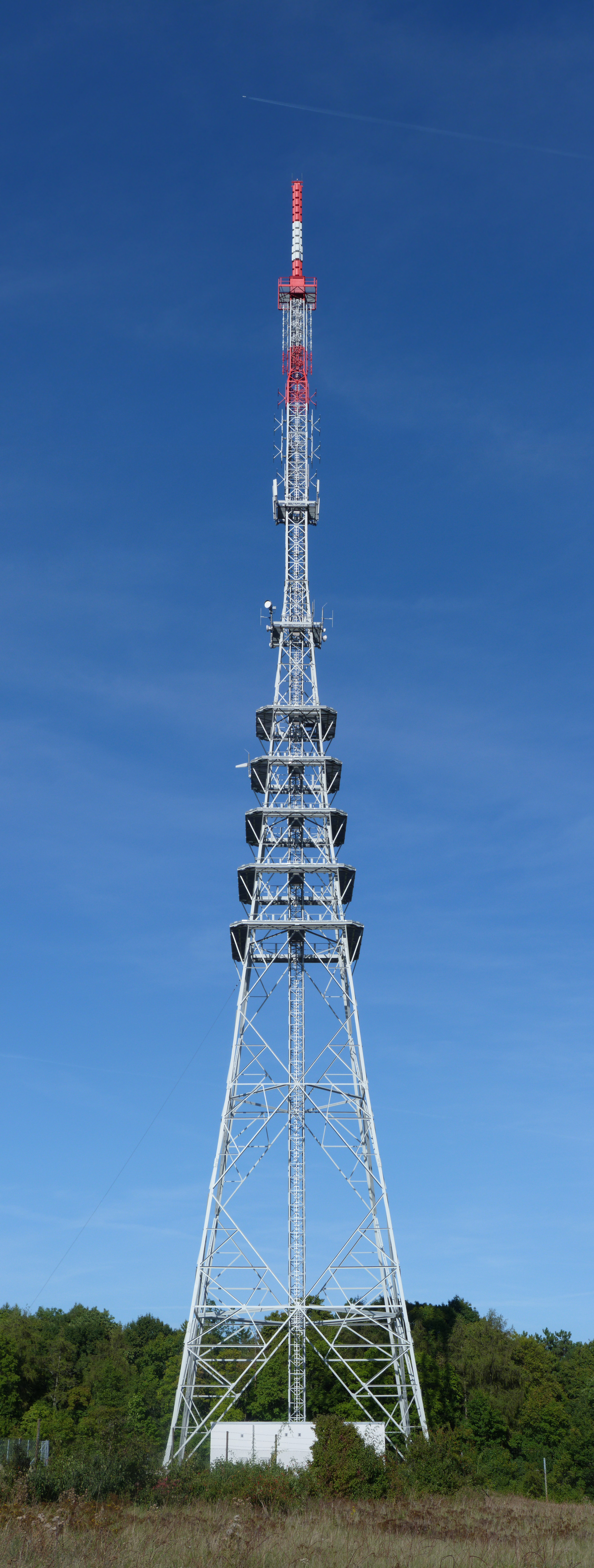 New television and radio broadcast tower in Würzburg, Germany. The construction is 110m tall.